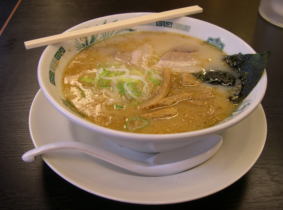 Tonkotsu ("pork bone broth") ramen at a ramen shop in Ebisu, Tokyo, Japan.